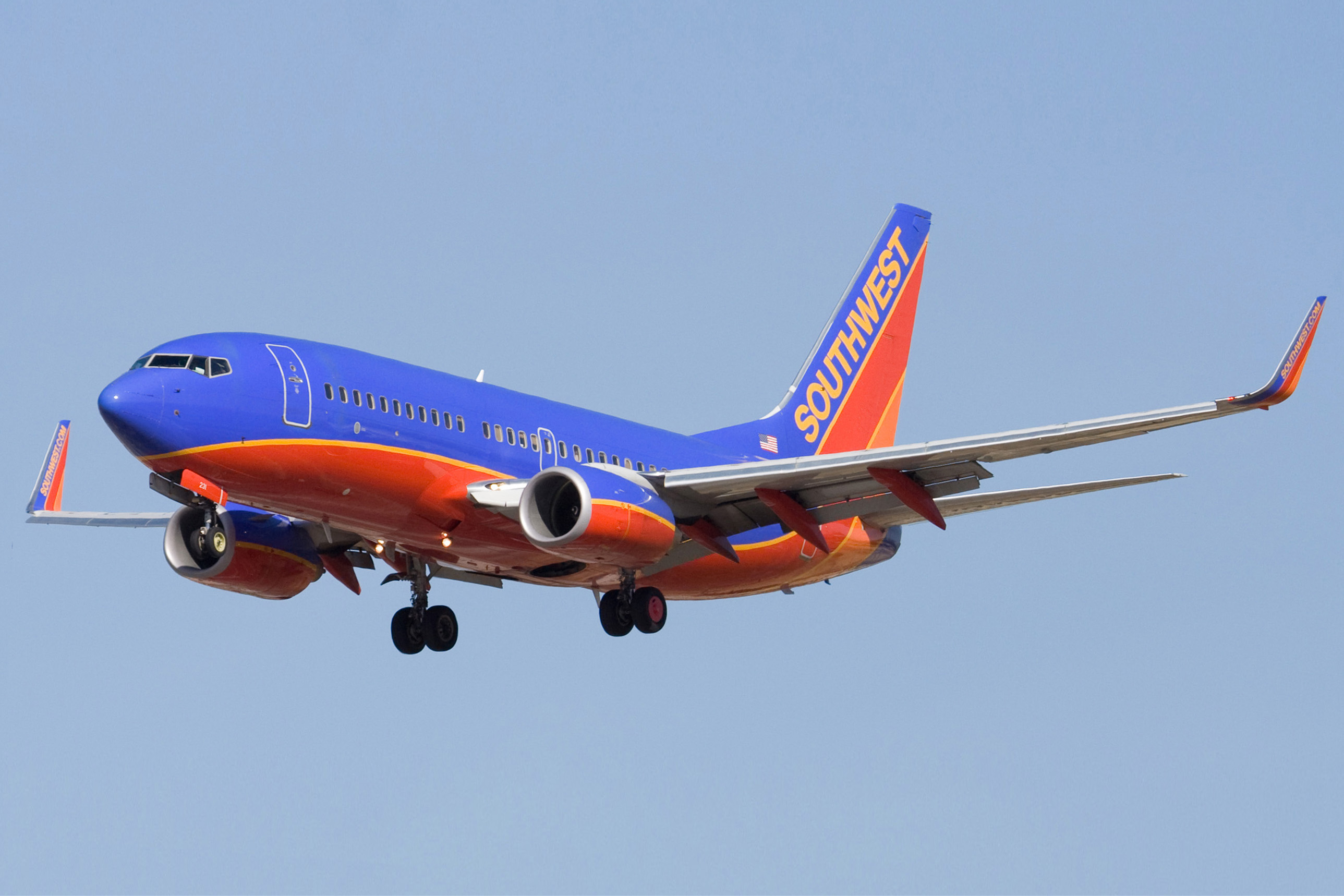 A Southwest Airlines Boeing 737–700 landing at San Jose International Airport, shown in the company's Canyon Blue livery.